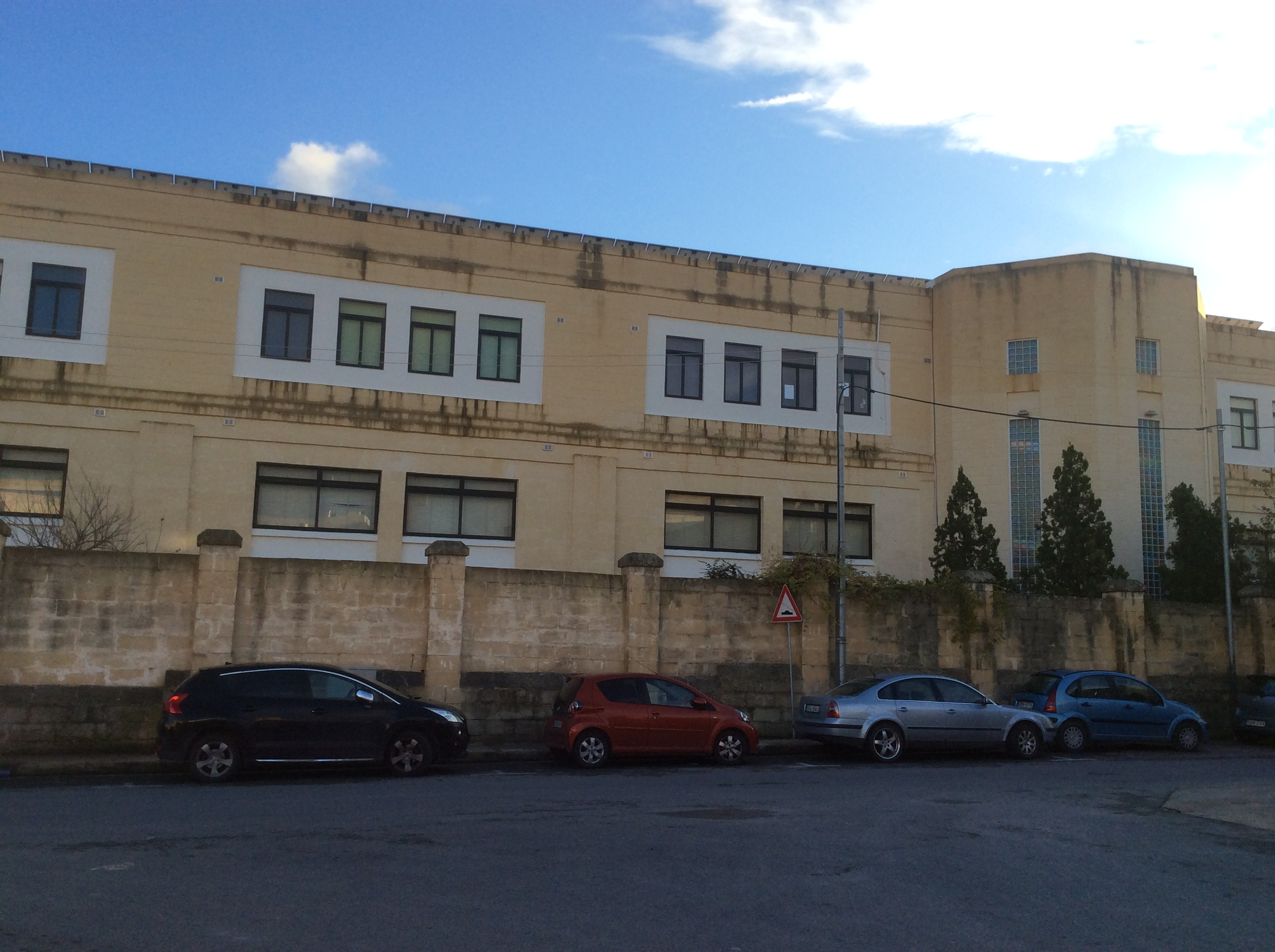 Church school Santa Venera